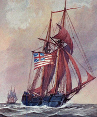 Continental Navy Ship Wasp (1775)